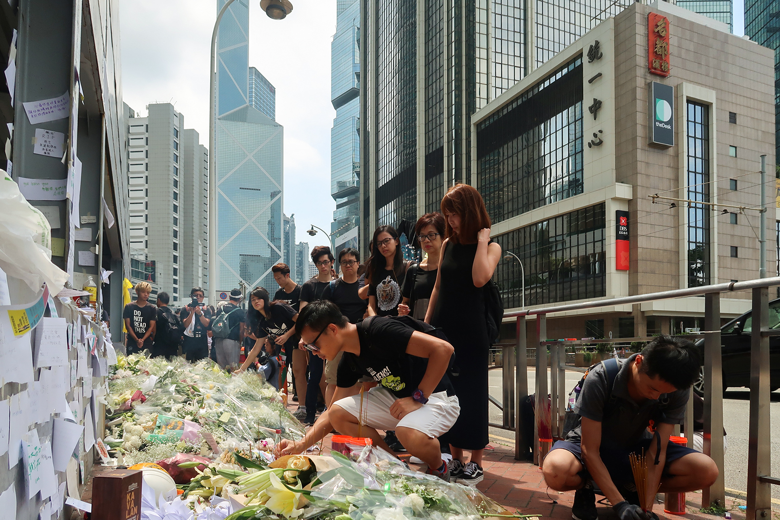 People place flowers and pay tribute in Pacific Place